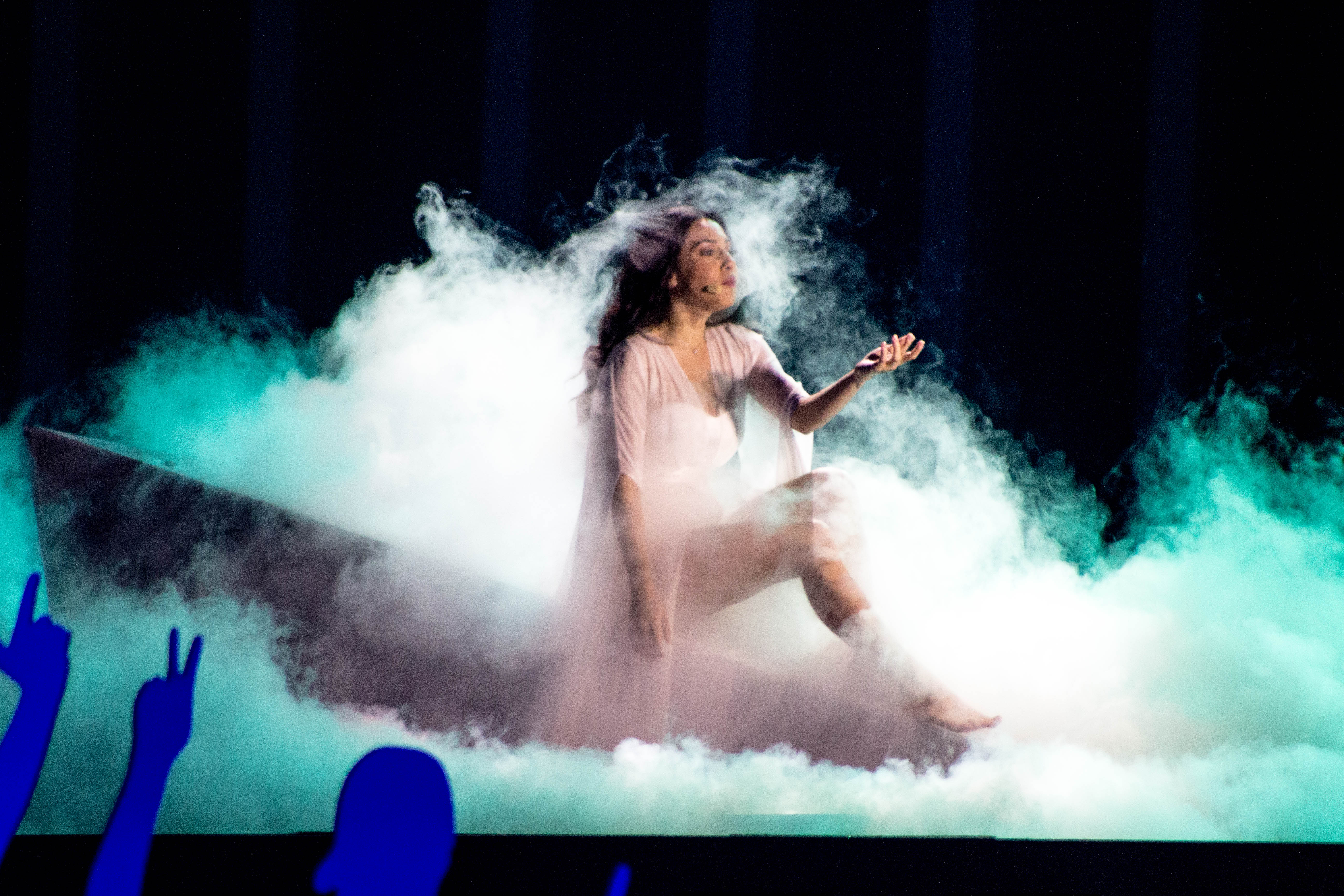 Aisel representing Azerbaijan with the song "X My Heart" during a rehearsal before the first semi final of the Eurovision Song Contest 2018 in Lisbon.